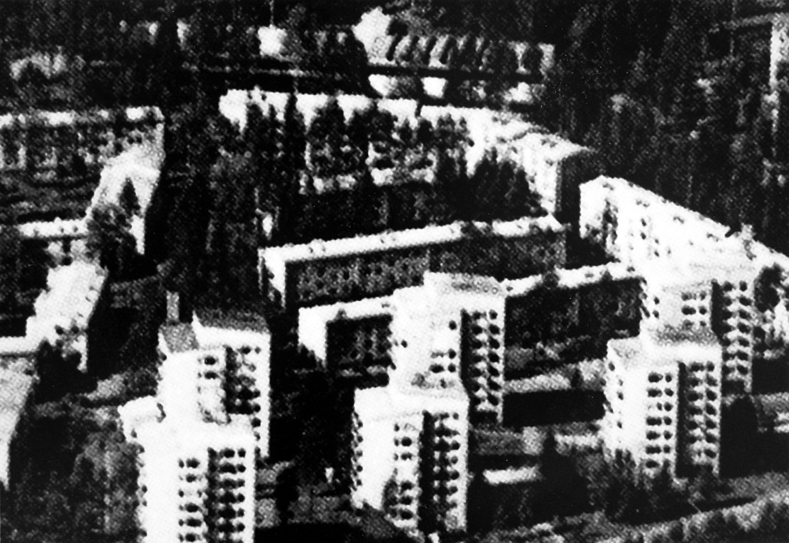 Housing at Ulvilantie street 27 and 29 in Munkkivuori, Helsinki, Finland.